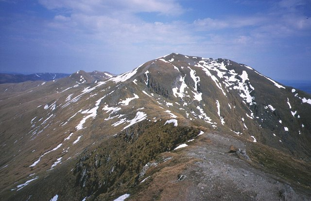 Ben Lawers from Beinn Ghlas.